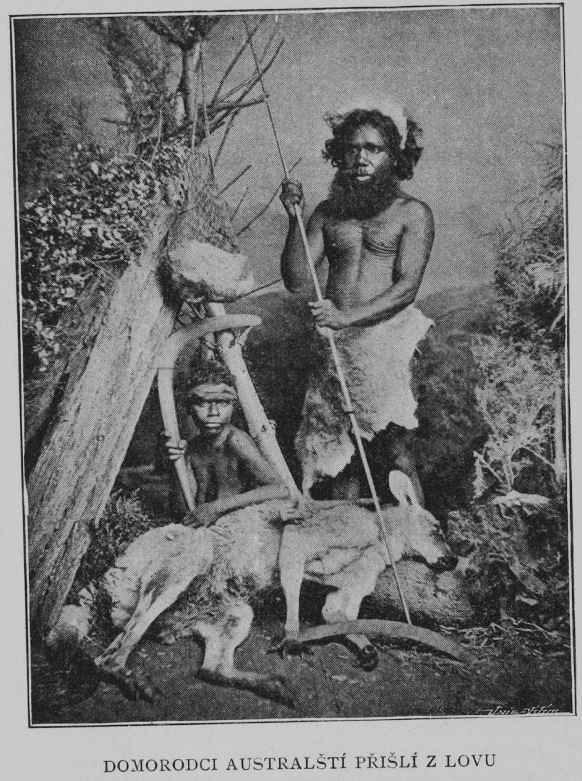 Indigenous Australian hunters. An illustration to a Czech-language travelogue Obrazy z jižní polokoule ("Pictures from the Southern Hemisphere"), chapter I. Hostem u českobratrského misionáře ("As a guest of a Bohemian Brother missionary"). This picture (and others in the same article) were taken around Ramahyuck mission outside Stratford, Victoria.